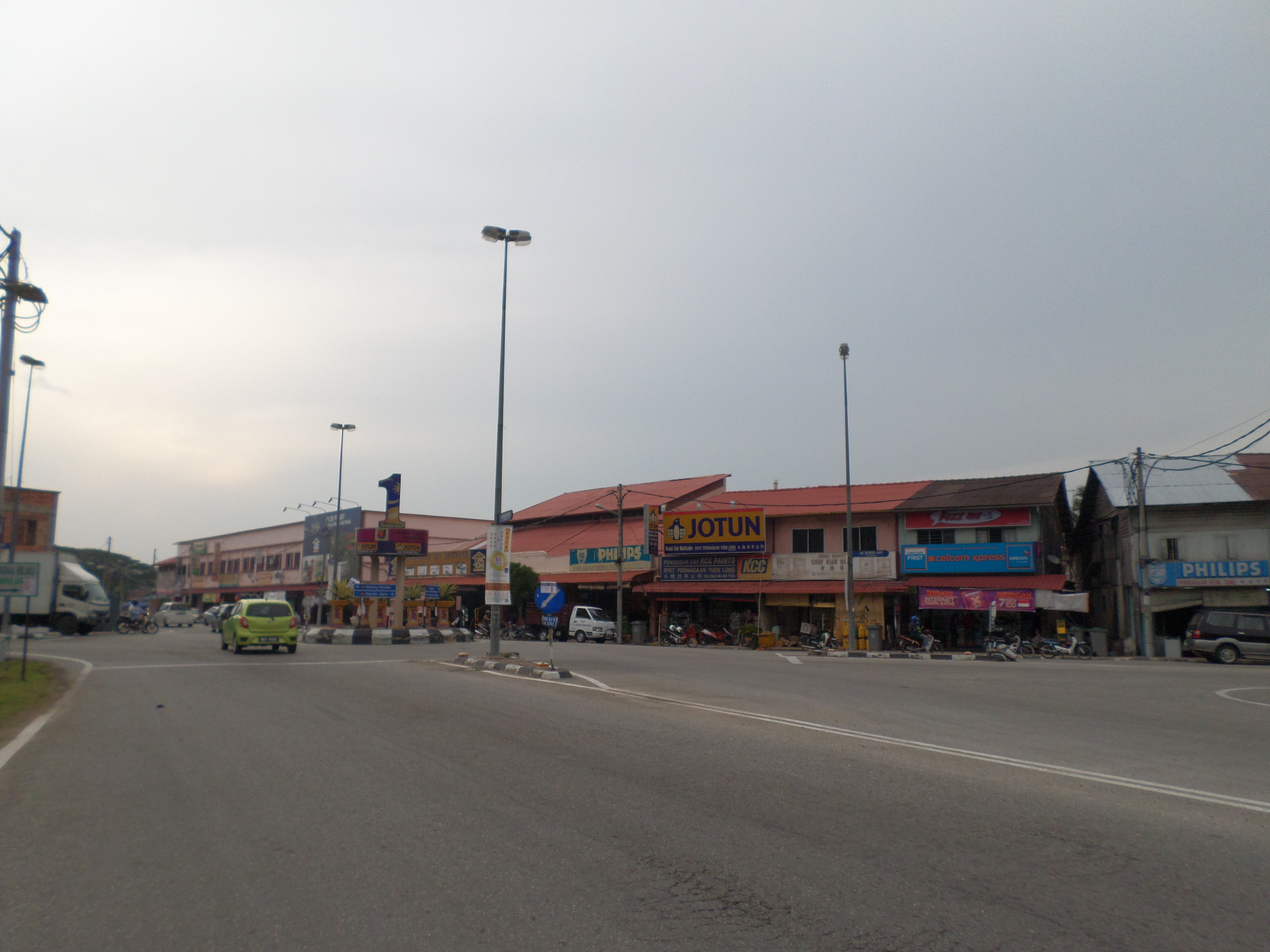 Selandar, Jasin, Malacca, MalaysiaBahasa Melayu: Selandar, Jasin, Melaka, Malaysia